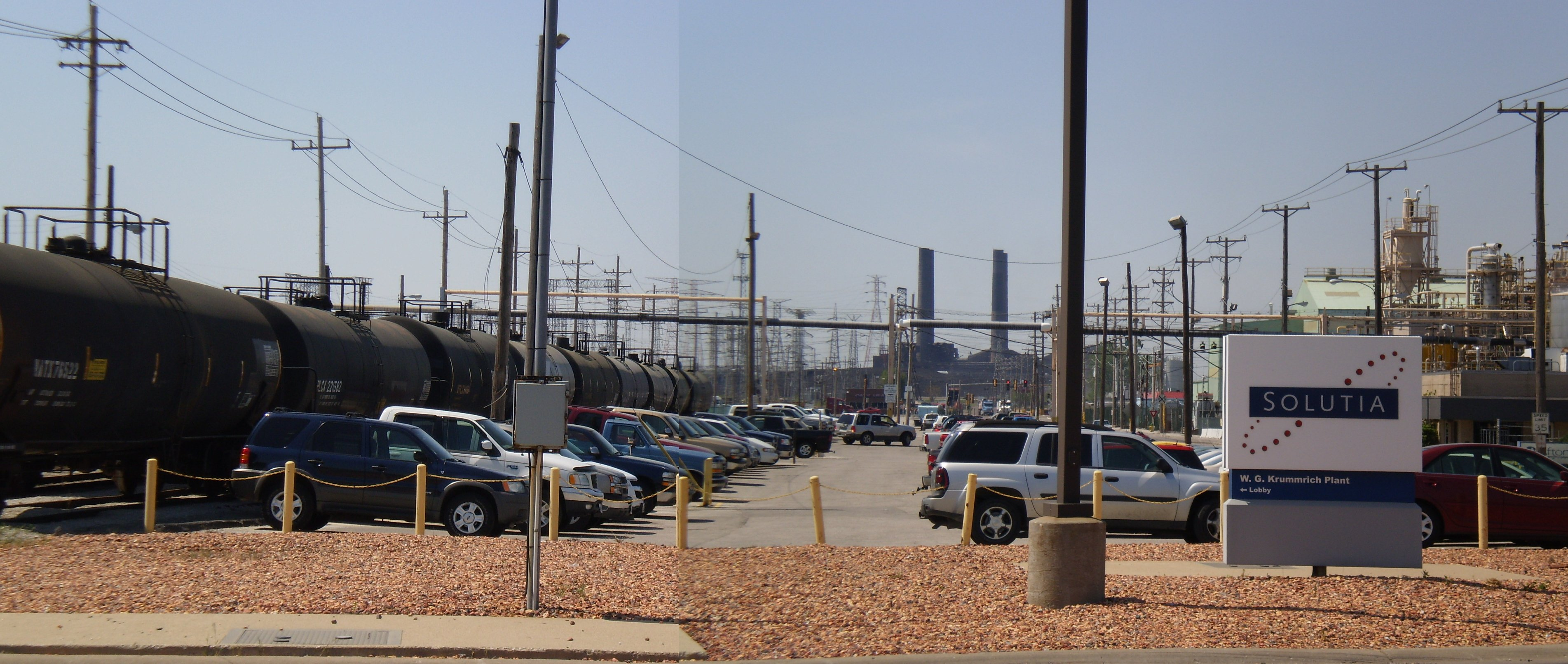 Solutia Plant in Sauget Illinois, divested from Monsanto